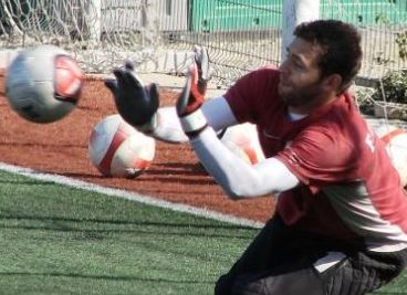 Picture of Bogdan Lobont taken at Dinamo Bucharest training, October 2007